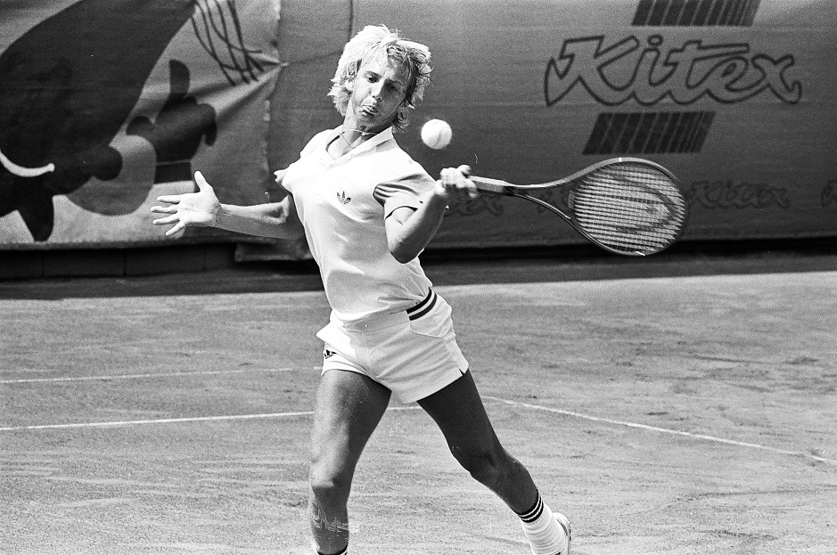 Young Austrian Top Tennis Player Thomas Muster competing in Kitzbühel